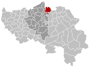 Map, municipality belgium Dalhem